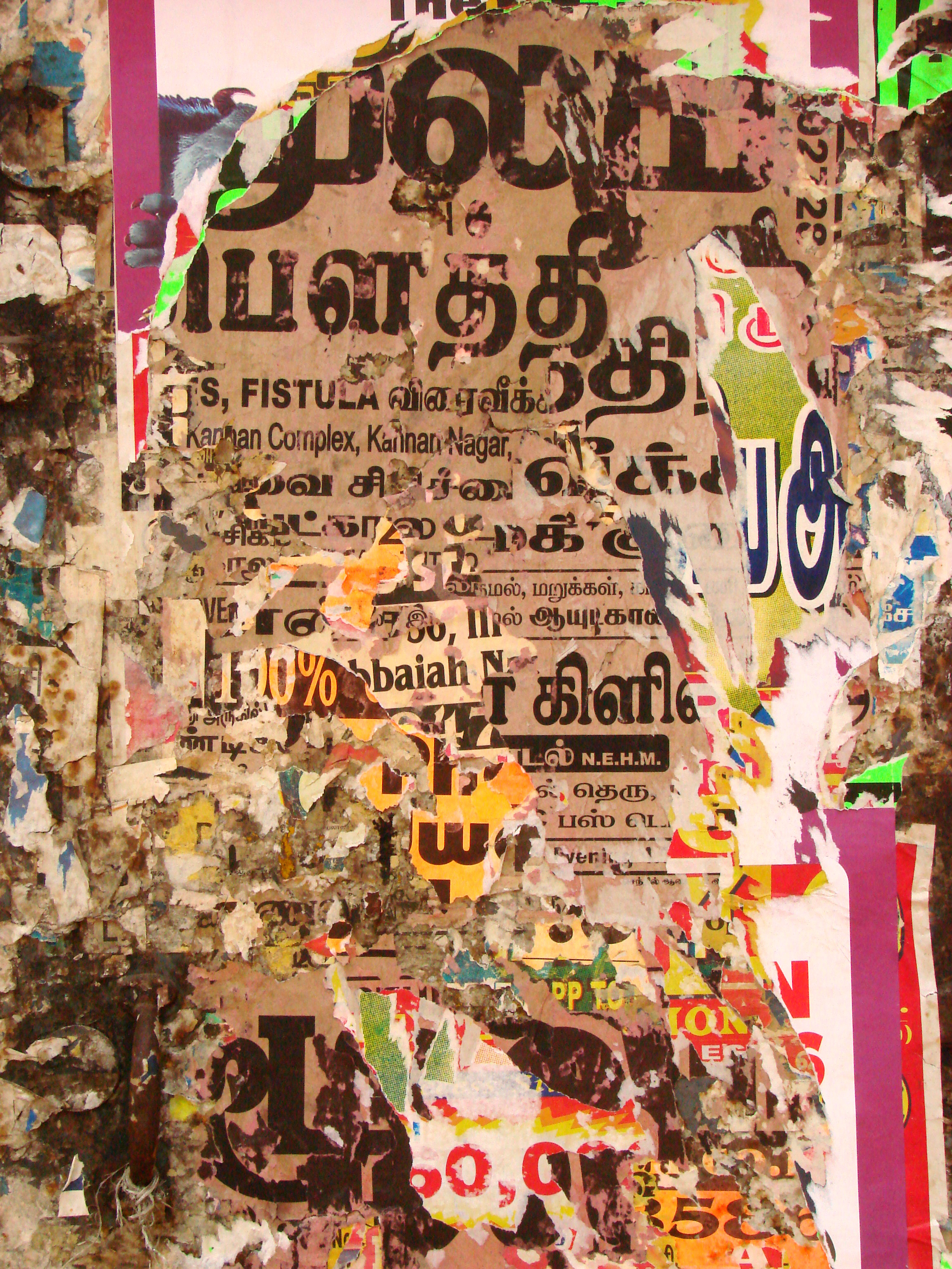 Palimpsest of street posters in Pondicherry (Puducherry), India. July 2008. Jawaharlal Nehru, India's first post-independence Prime Minister, described his country as "an ancient palimpsest on which layer upon layer of thought and reverie had been inscribed, and yet no succeeding layer had completely hidden or erased what had been written previously."